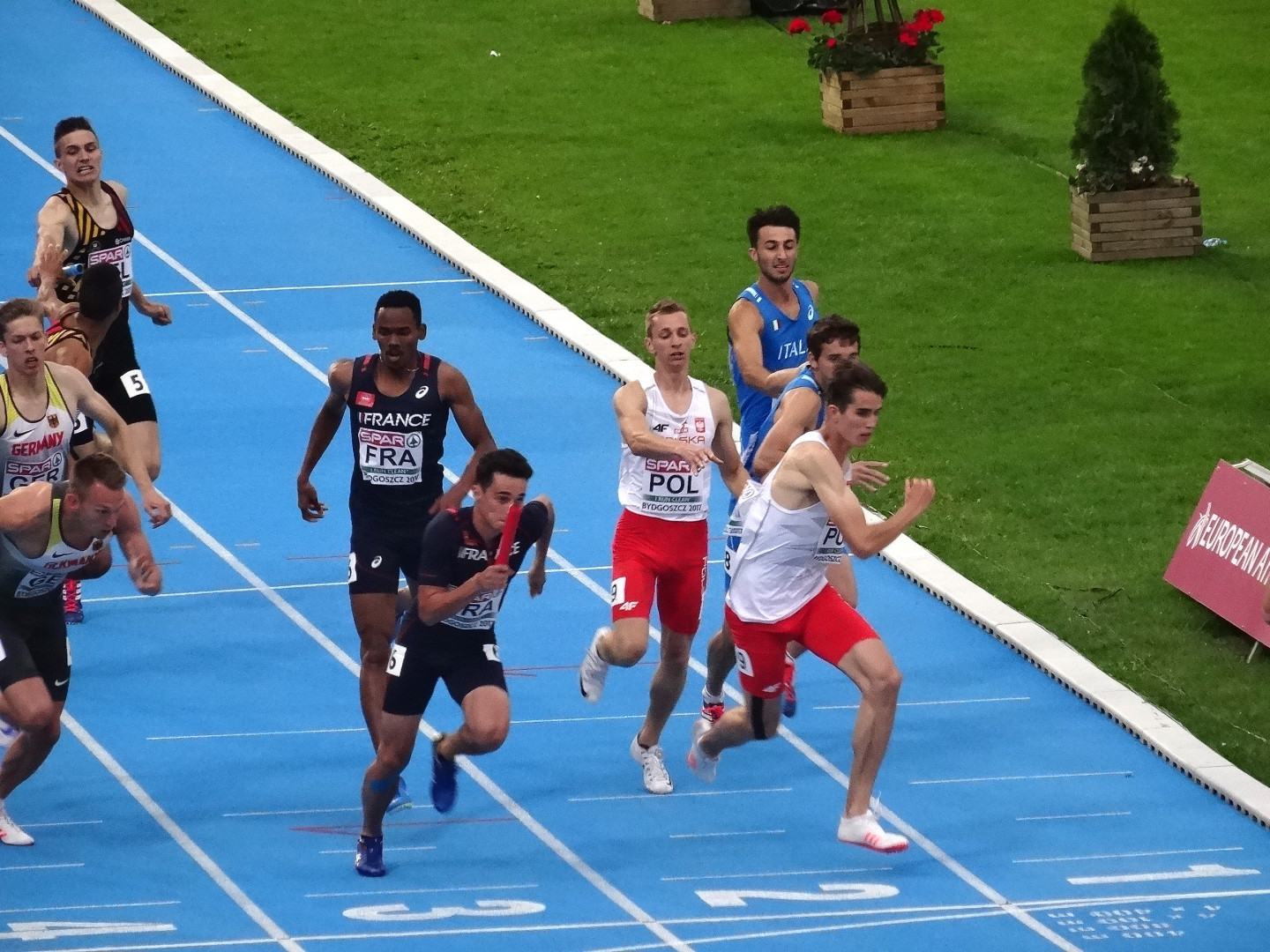 2017 European Athletics U23 Championships, 4x400m relay men final